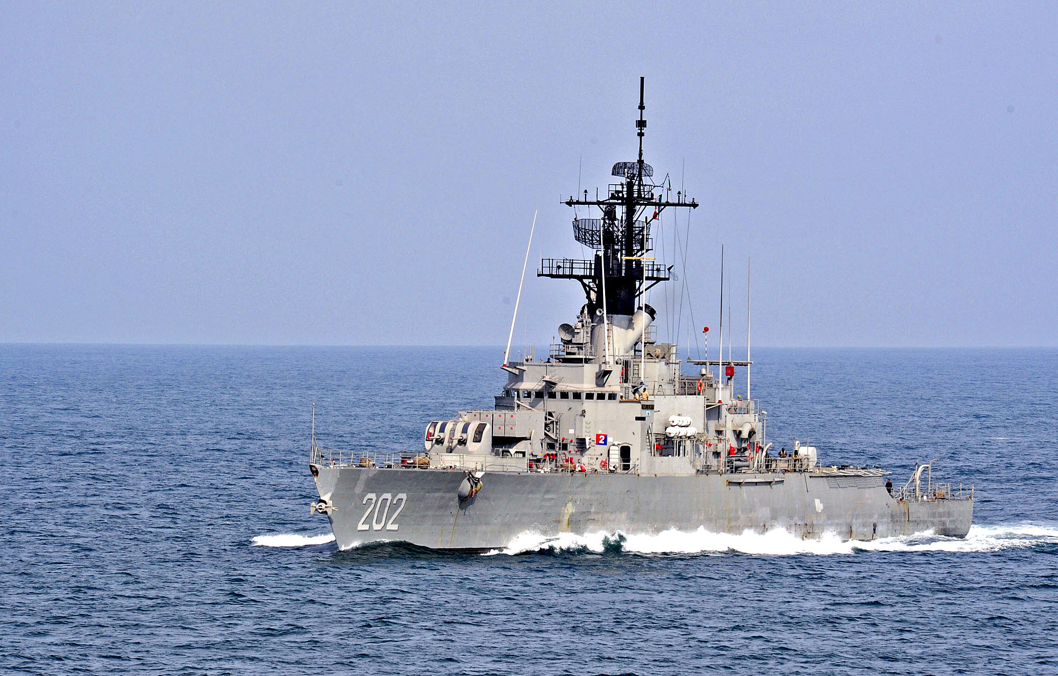 The Mexican Navy frigate ARM Hermenegildo Galeana (F 202) underway during a passing exercise with the littoral combat ship USS Independence (LCS-2), not visible, following Independence's port visit to Manzanillo, Mexico. Galeana is former U.S. Navy frigate USS Bronstein (FF-1037). Bronstein was commissioned June 1963, decommissioned in 1990, then transferred to the Mexican Navy in 1993 and began active service as Galeana in 2012.